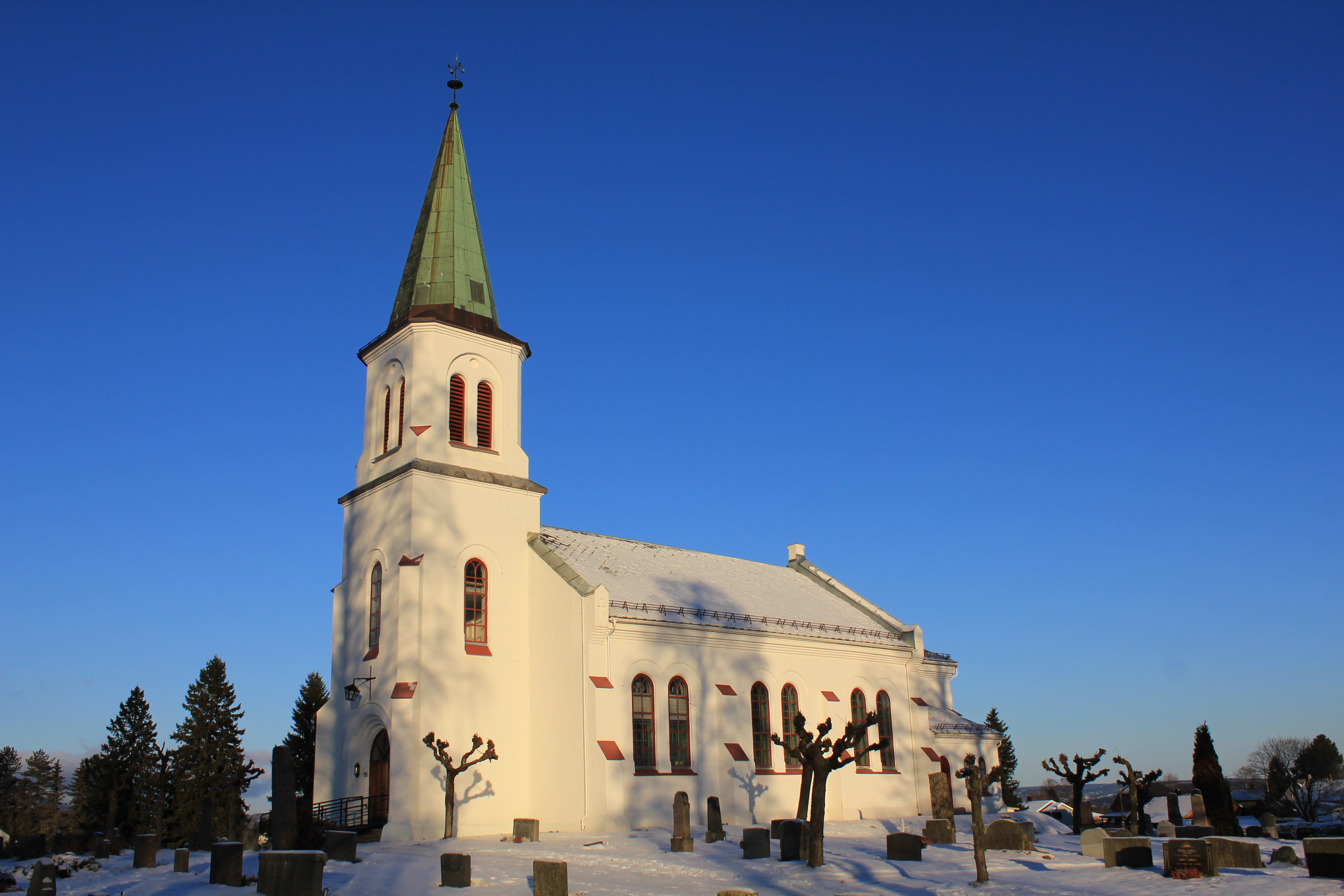 Råholt church in Akershus, Norway.